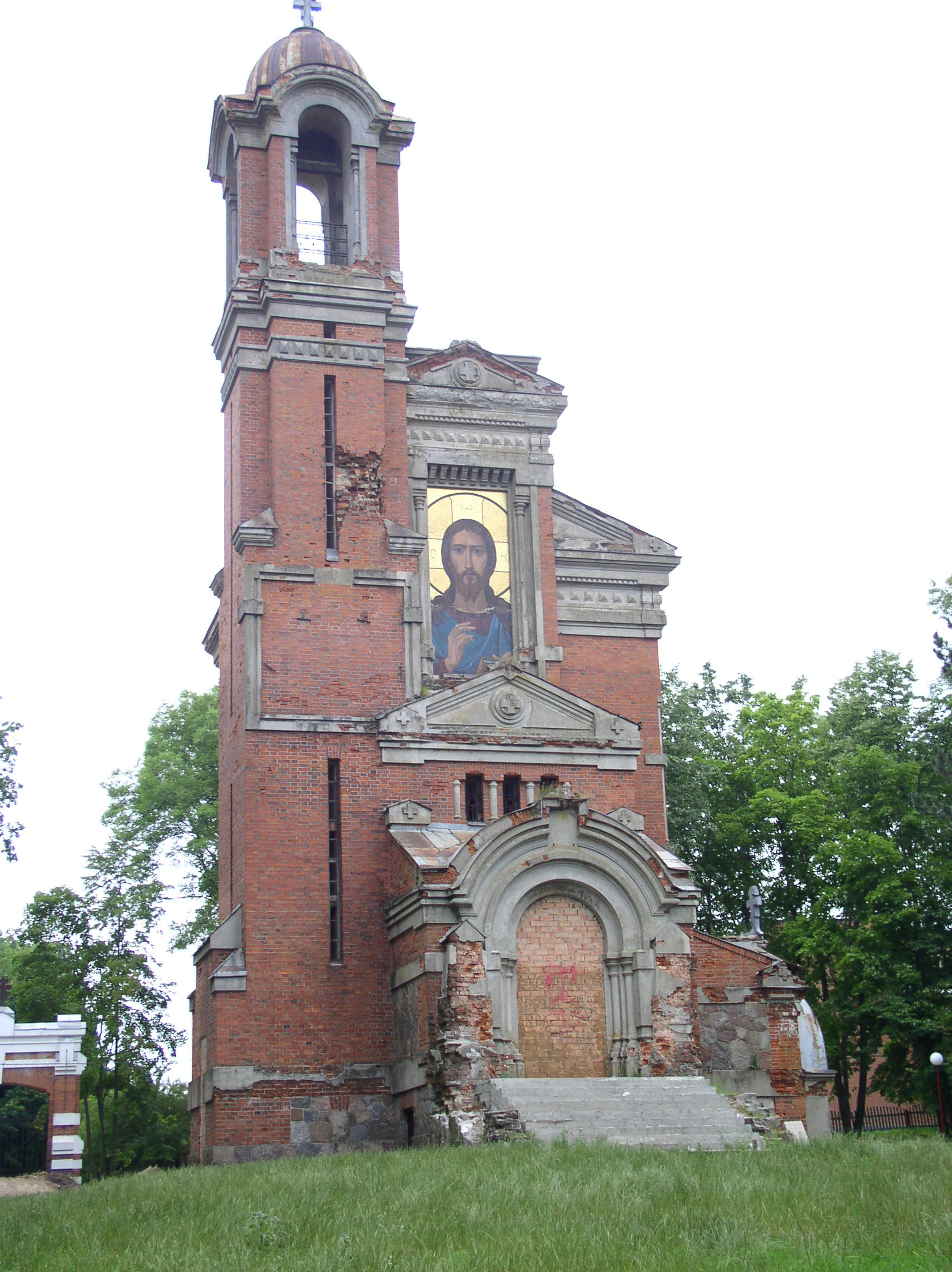 Chapel-burial-vault of Svyatopolk-Mirsky family. Mir, Belarus.